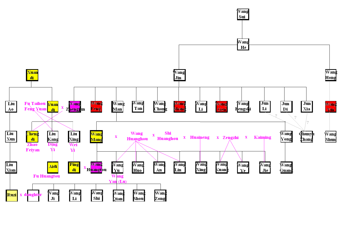 genealogical tree Wang Mang